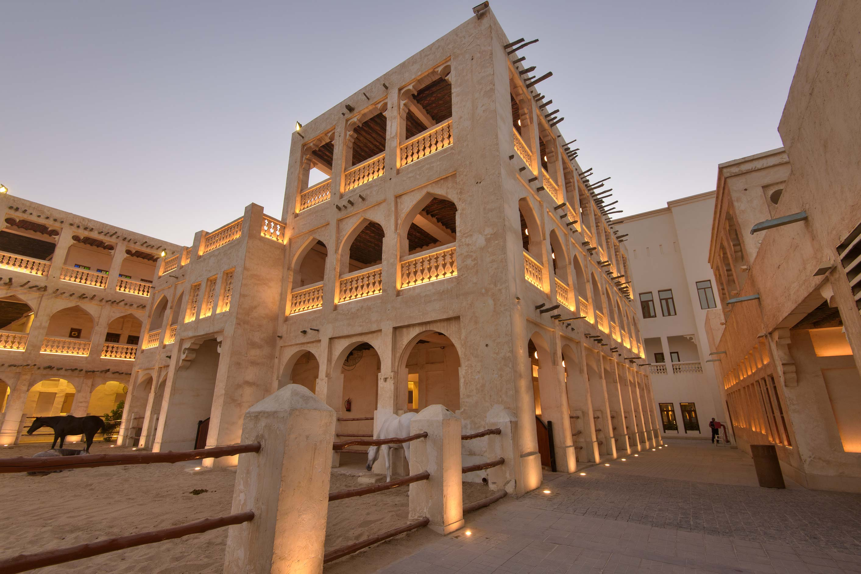 Horse stables on Al Jasra Street in Al Jasra district of Doha, Qatar.